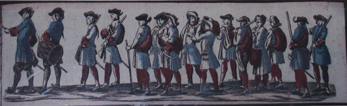 Called up soldiers, Brod, Croatia, 18th cenutry